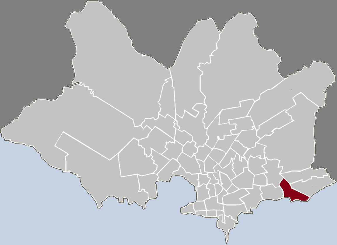 Map highlighting the given barrio in Montevideo.